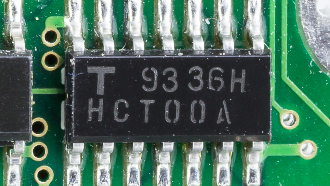 Laptop Acrobat Model NBD 486C, Type DXh2 - Toshiba HCT00A (Quad 2-Input NAND Gate) on motherboard